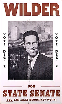 Doug Wilder campaign poster for the Virginia Senate. Derived from